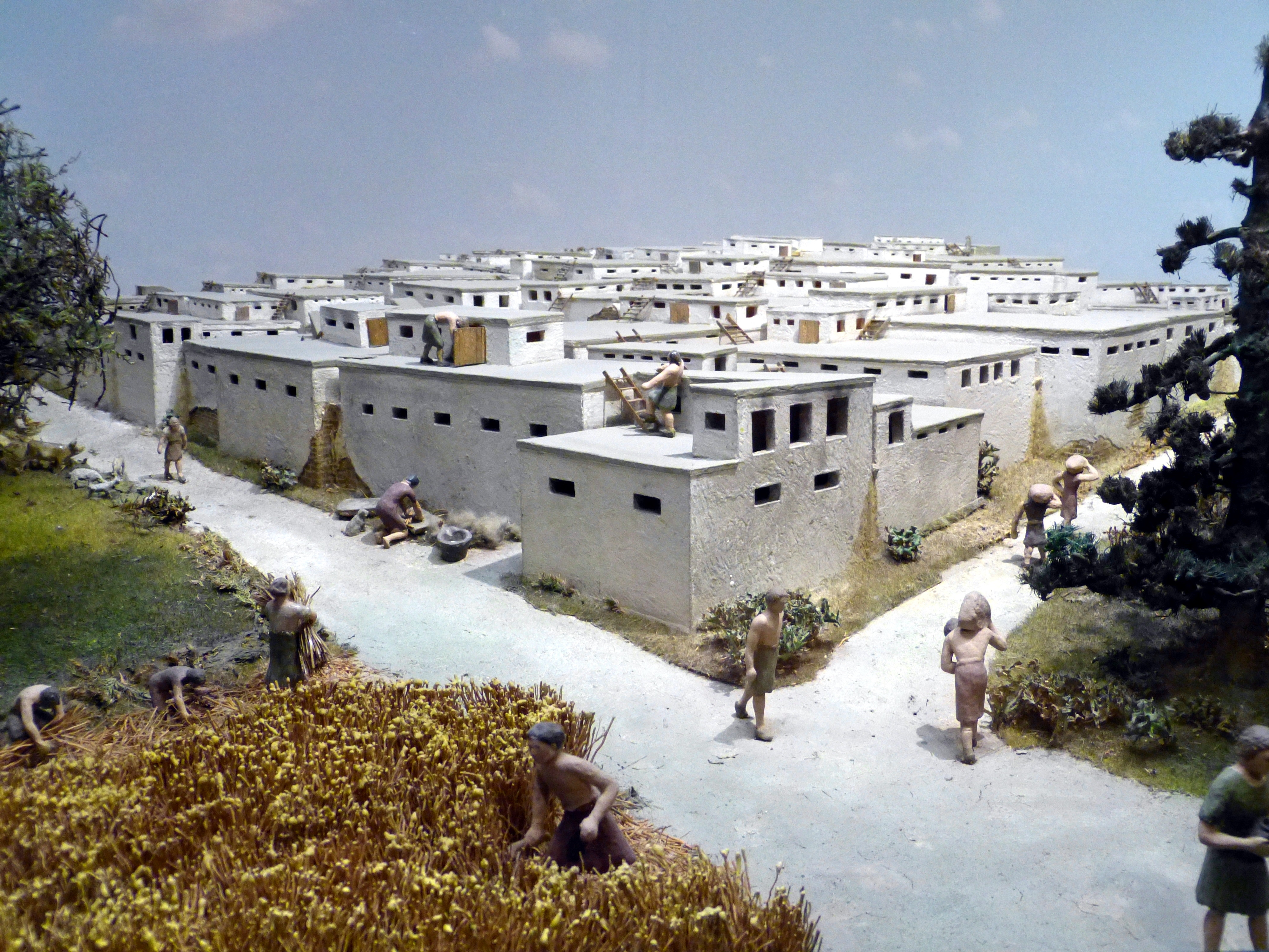 Weimar ( Thuringia ). Museum for Prehistory in Thuringia: Model of the neolithic settlement ( 7300 BC ) of Catal Höyük ( Turkey ).